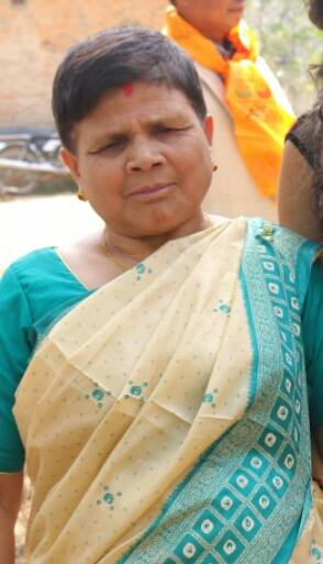 Subhadra Shrestha